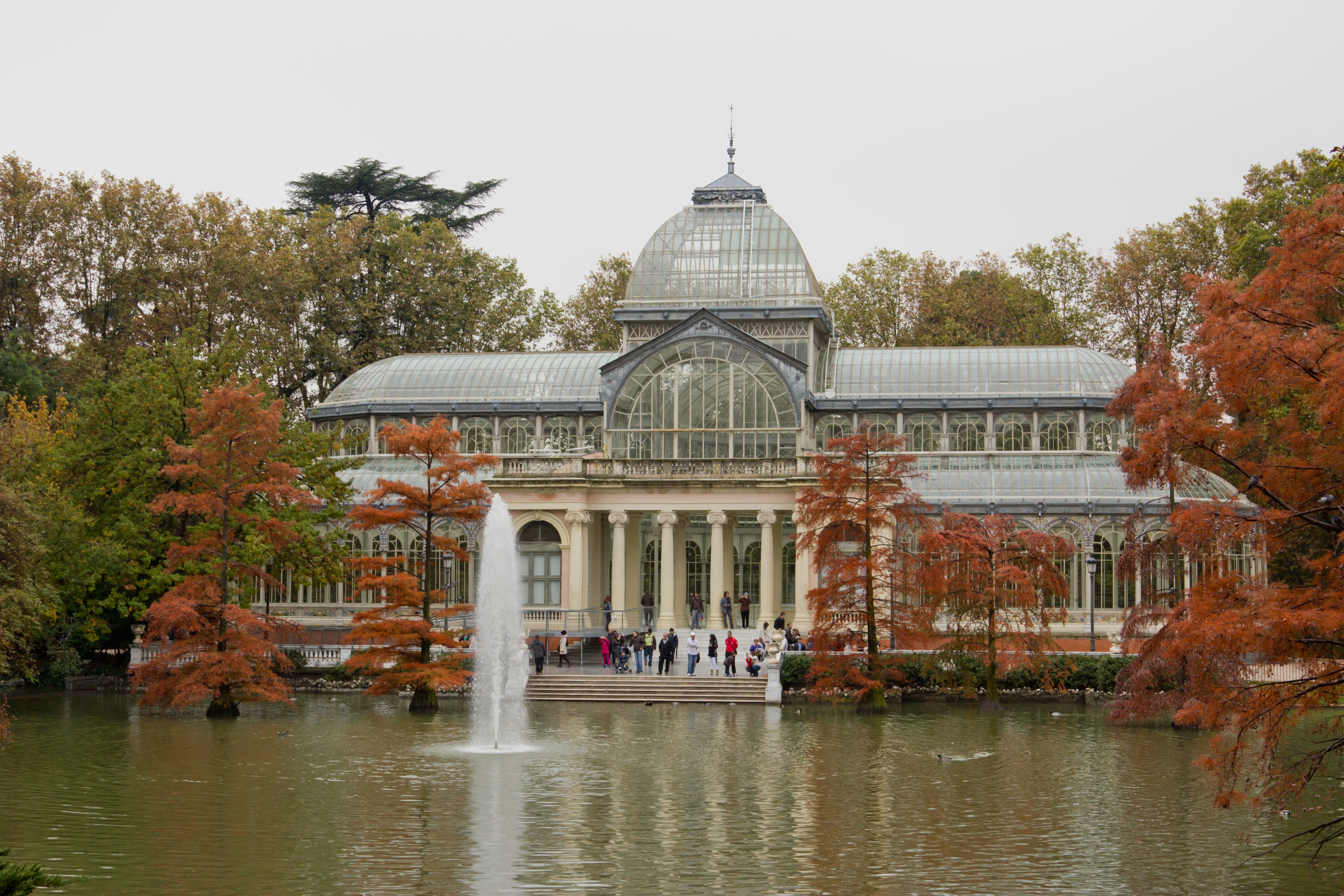 Autumn view of the Crystal Palace in the Buen Retiro Park, Madrid, Spain.